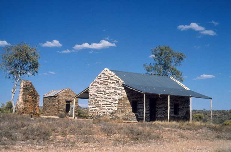 The ruins of the historic Arltunga Gaol at the Arltunga Historical Reserve in Central Australia. Year unknown.